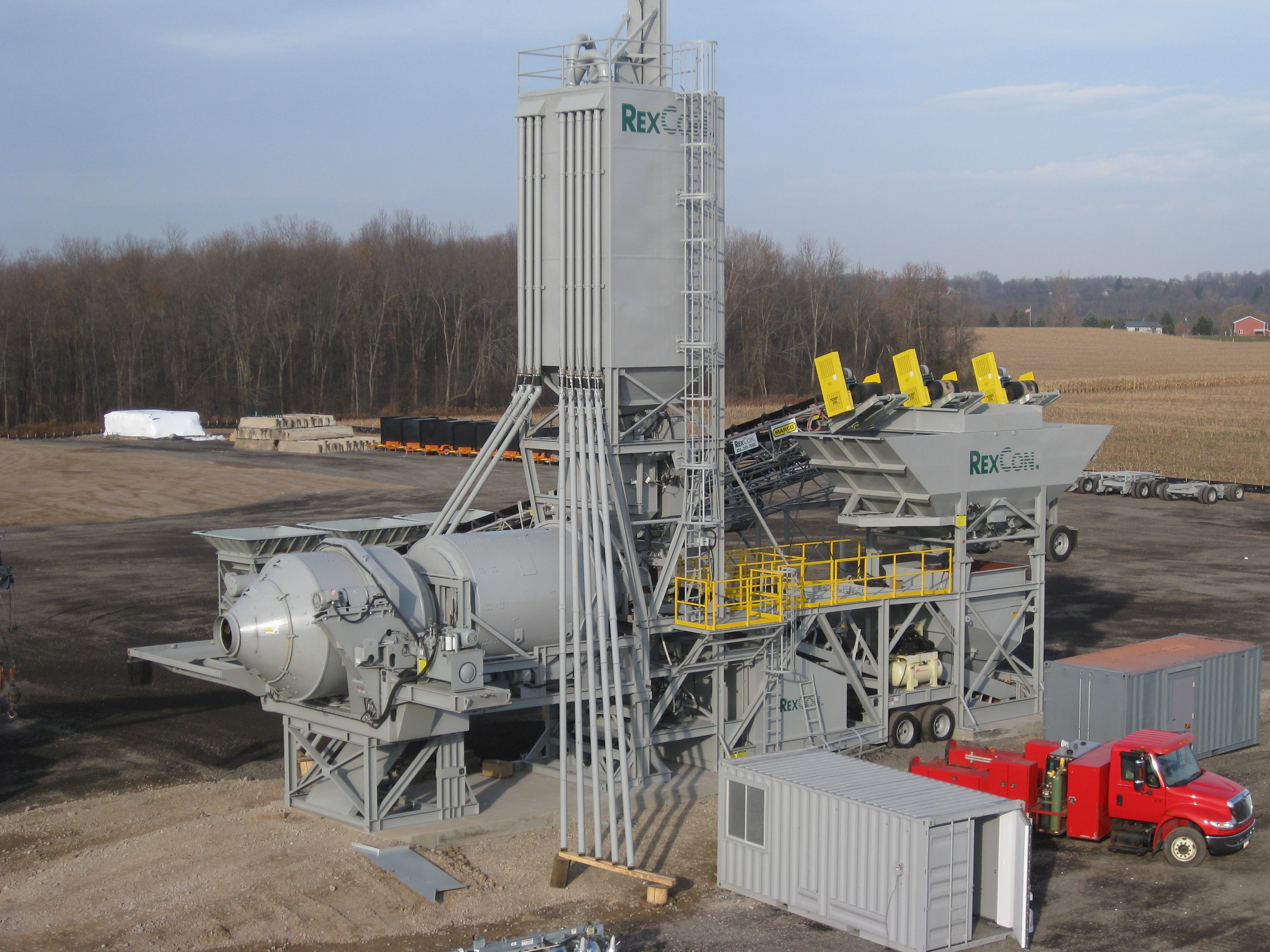 RexCon Portable Model S Concrete Batch Plant with 12 yard cubic tilt mixer, conveyors, horizontal mixer, and bins, and control containers- This model produces up to 55 yards loads per hour with a 12 cubic yard mixer and horizontal mixer.